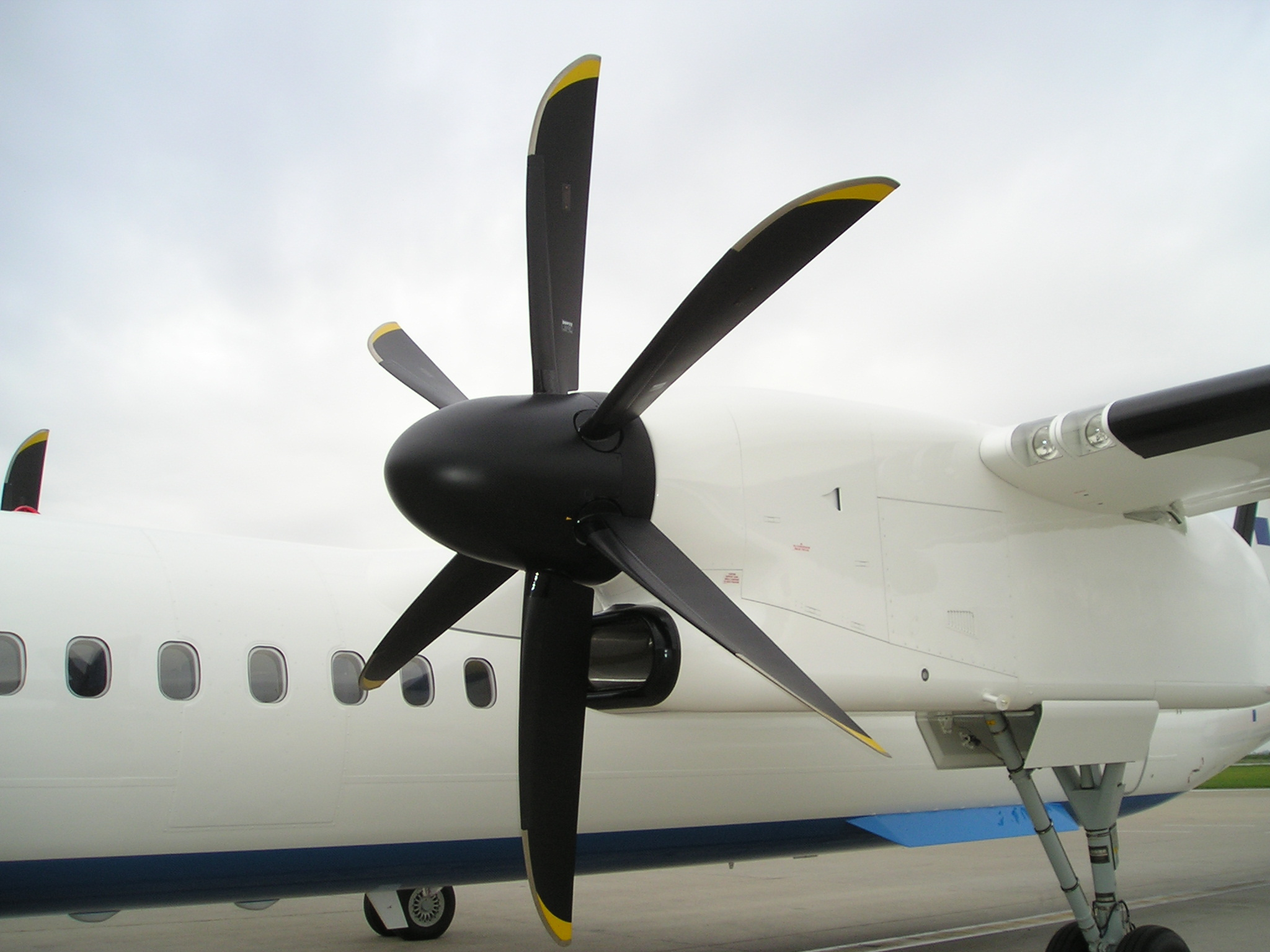 Propeller of the PW150 turboprop engine on a De Havilland Canada DHC-8-402Q Dash 8 aircraft belonging to Croatia airlines.